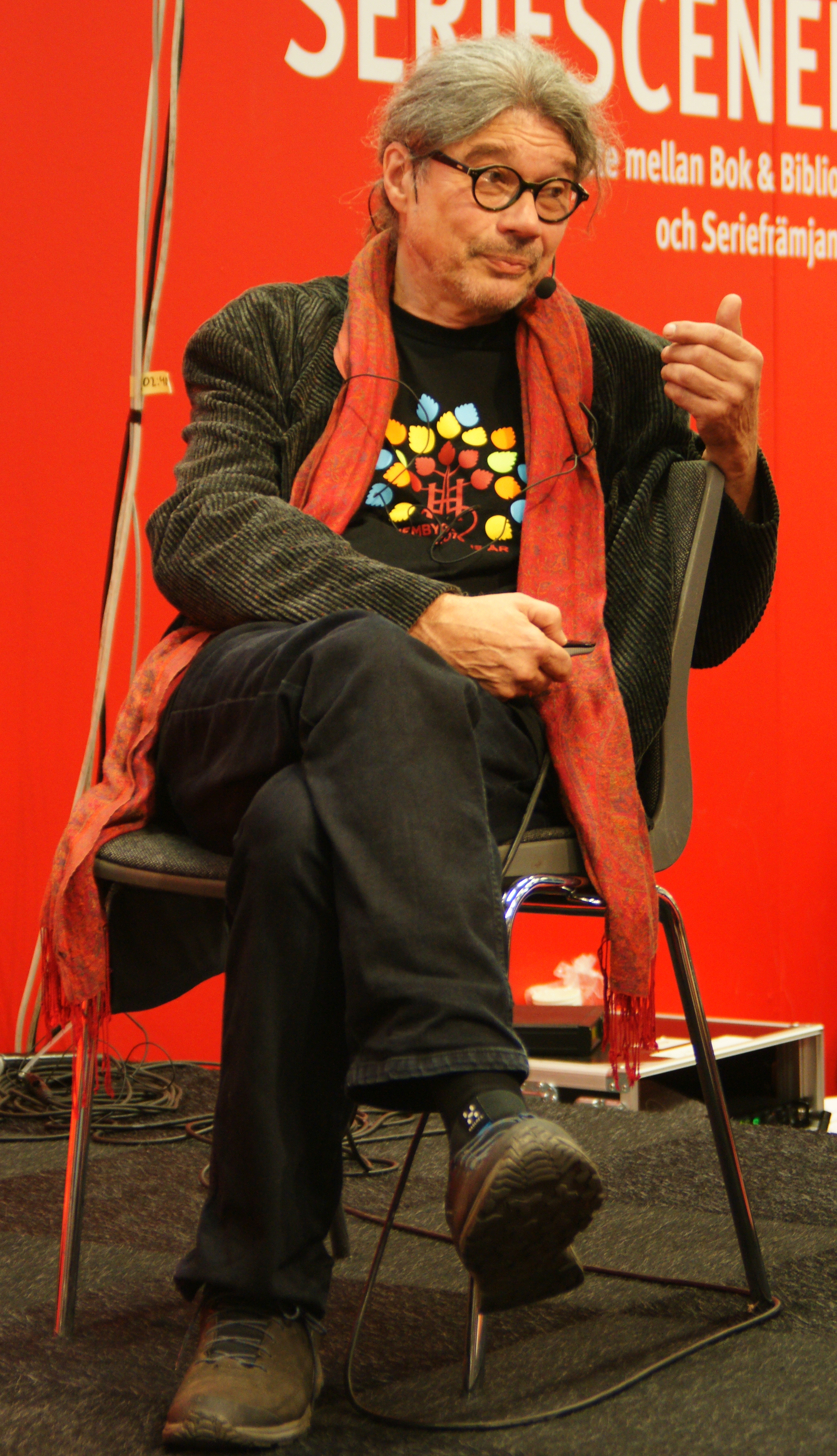 Swedish comic artist, illustrator and painter Ulf Lundkvist at Göteborg Book Fair 2016.